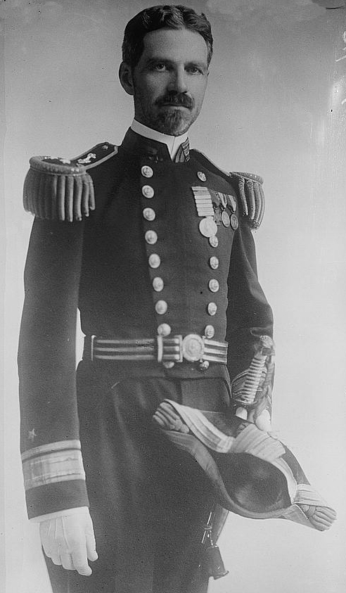 Bain News Service,, publisher. Commander Nathan Crook Twining circa 1913 [no date recorded on caption card] 1 negative : glass ; 5 x 7 in. or smaller. Notes: Title from unverified data provided by the Bain News Service on the negatives or caption cards. Forms part of: George Grantham Bain Collection (Library of Congress). Format: Glass negatives. Repository: Library of Congress, Prints and Photographs Division, Washington, D.C. 20540 USA, General information about the Bain Collection is available at Call Number: LC-B2- 2690-11